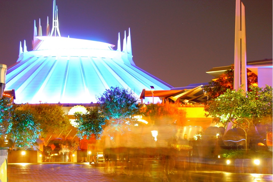 Space Mountain in Tomorrowland at Disneyland at night. Cropped from the original (CC BY 2.0) licensed image.